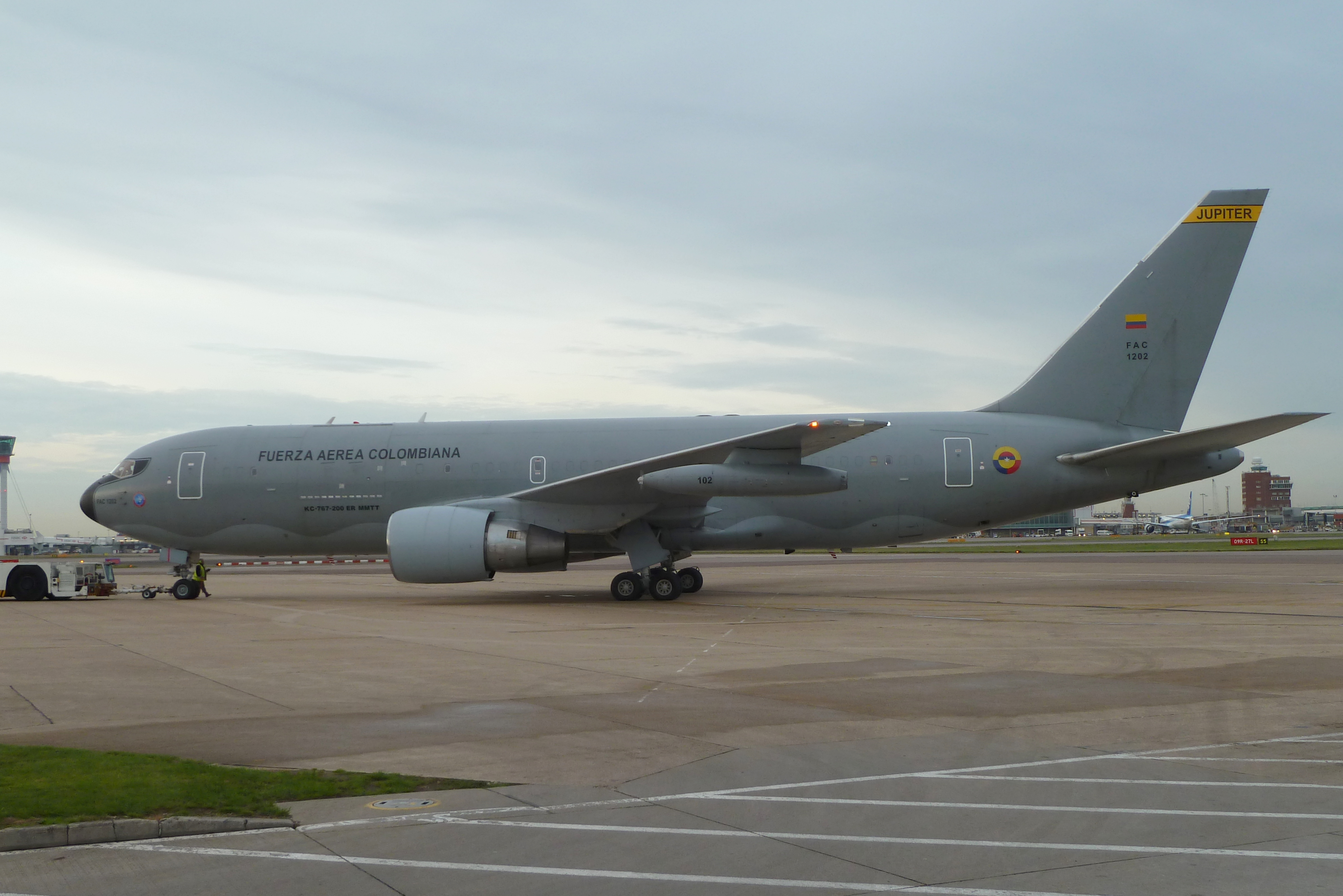 FAC1202 B767-200ER MMTT Colombian Air Force pushing back off RS1 with both control towers in the background.